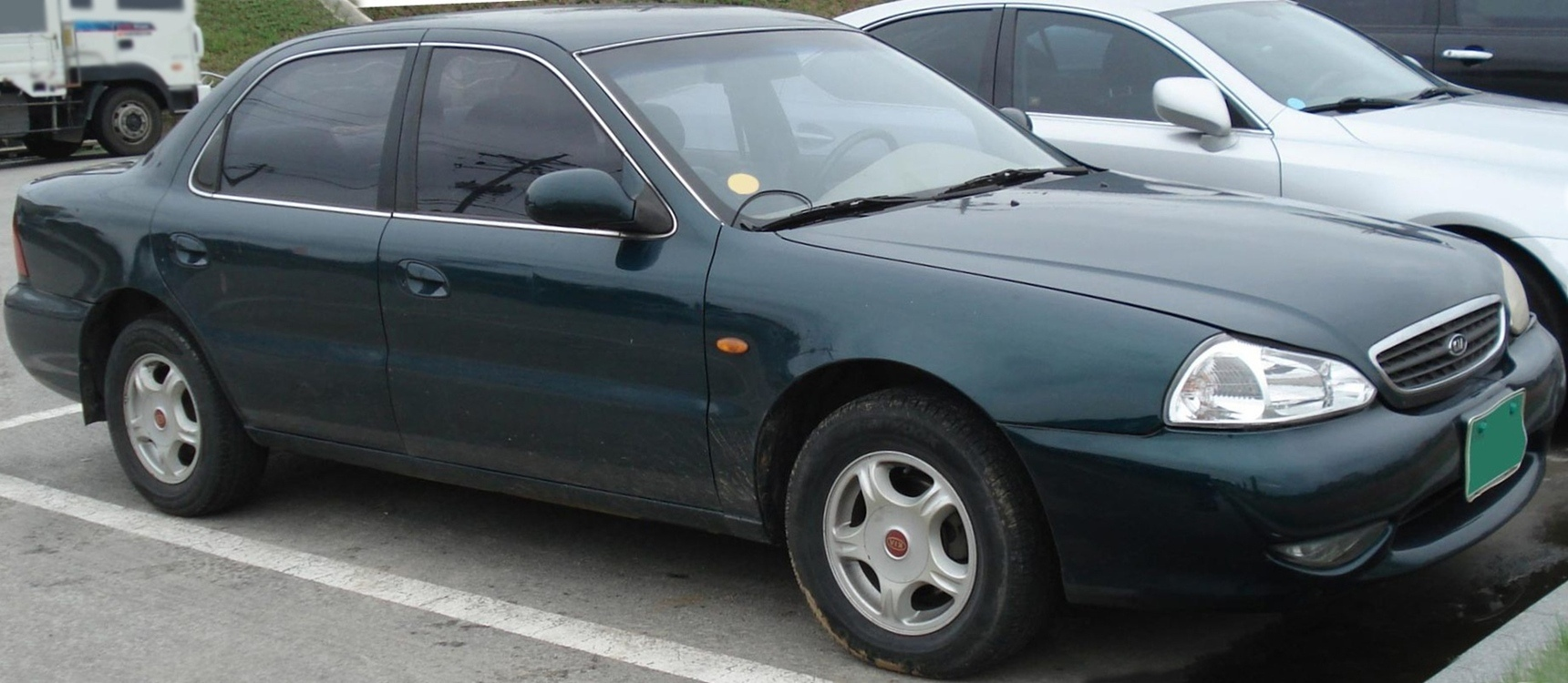 Kia Credos Ⅱ